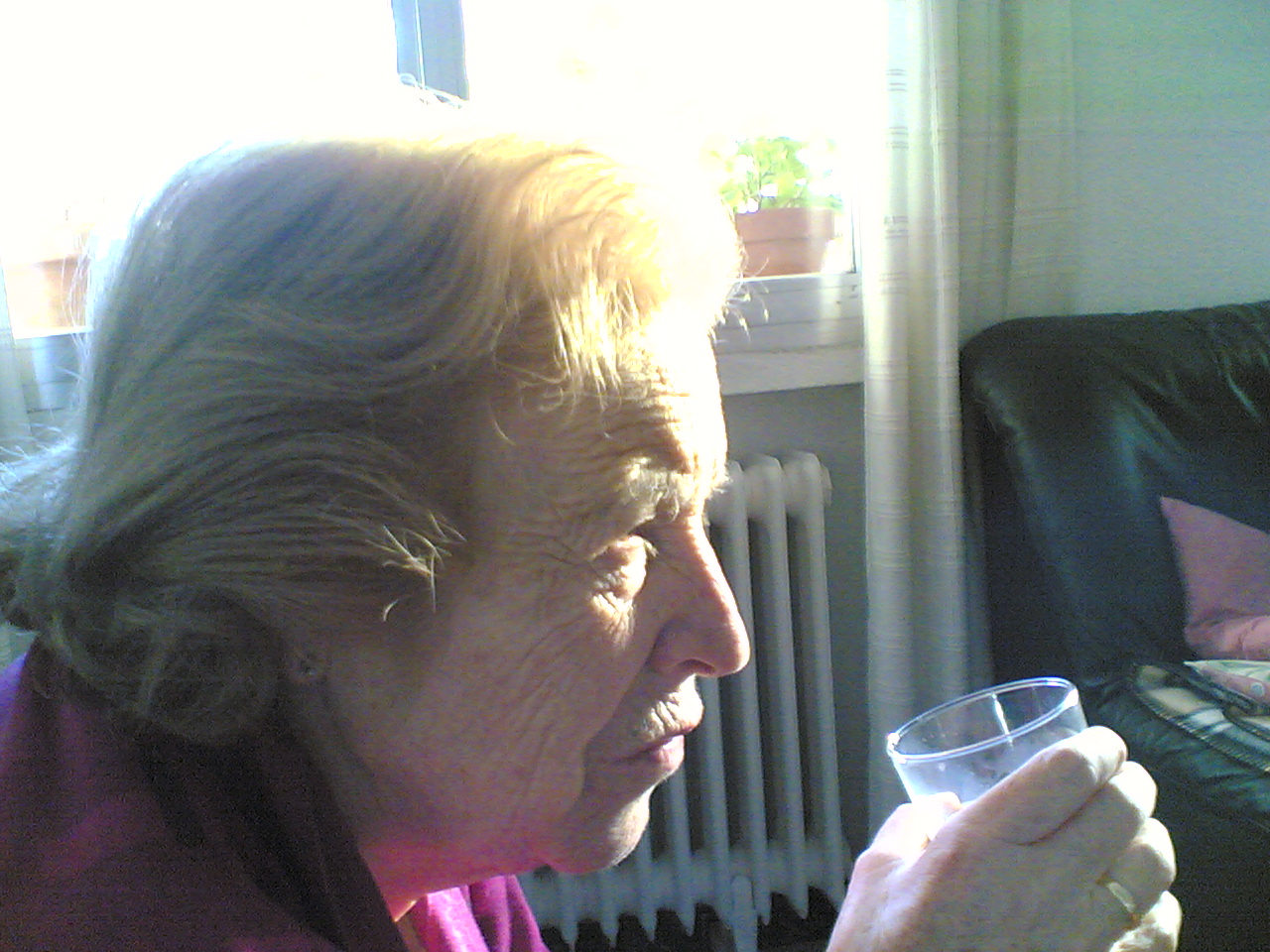 looking the world